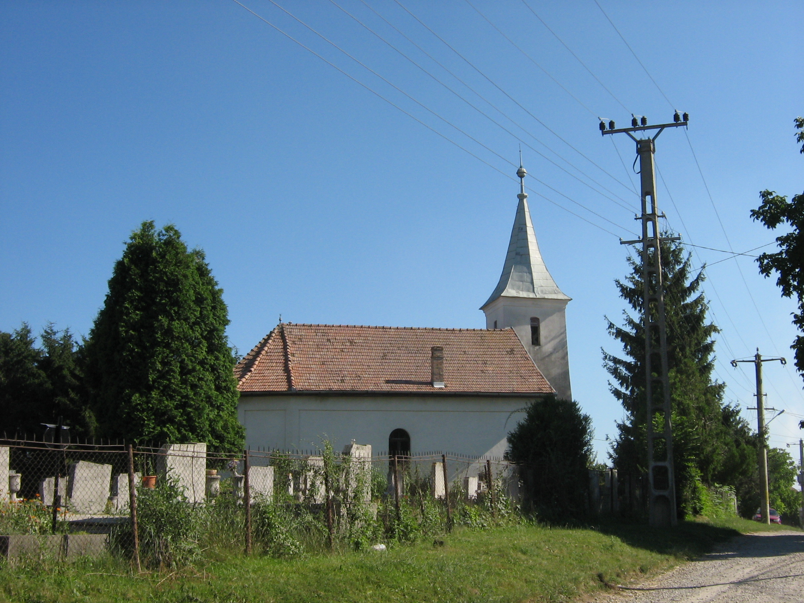 Sâncraiu de Mureş